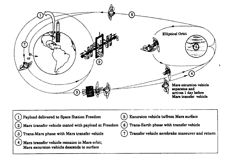 Mars Design Reference Mission, 90-Day-Study, Figure 3-13, Mars Mission Profile, 1989, page 3-23